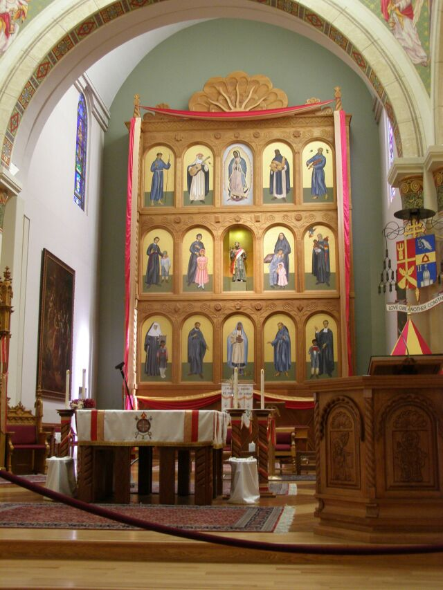 The Reredos in the sanctuary of St. Francis, Santa Fe, New Mexico